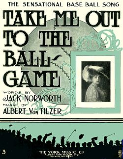 "Take Me Out to the Ball Game" sheet music cover, 1908